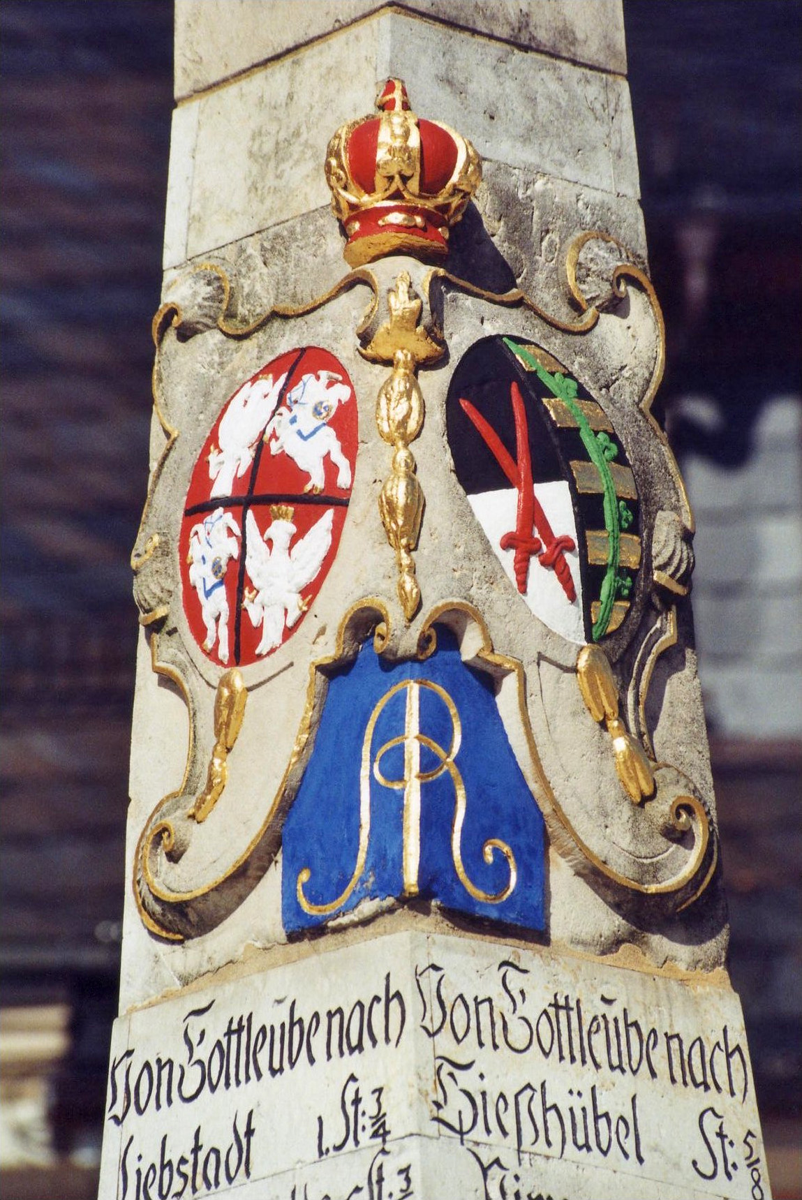 A postal milestone dated 1731, with the coats of arms of the Electorate of Saxony and the Polish-Lithuanian Commonwealth, in the market in Bad Gottleuba, Saxony state, Germany